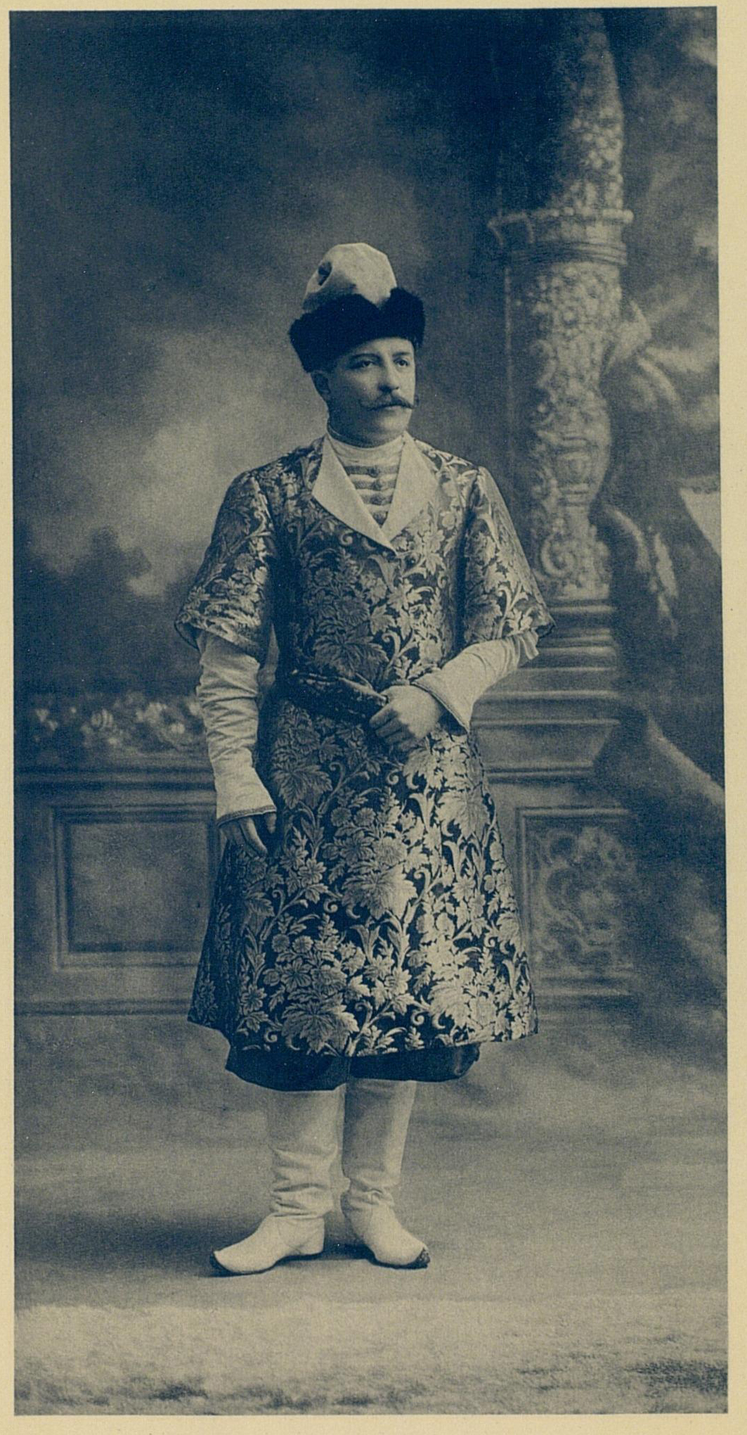 Fedor Vladimirovich Dubreyl-Eshapparr